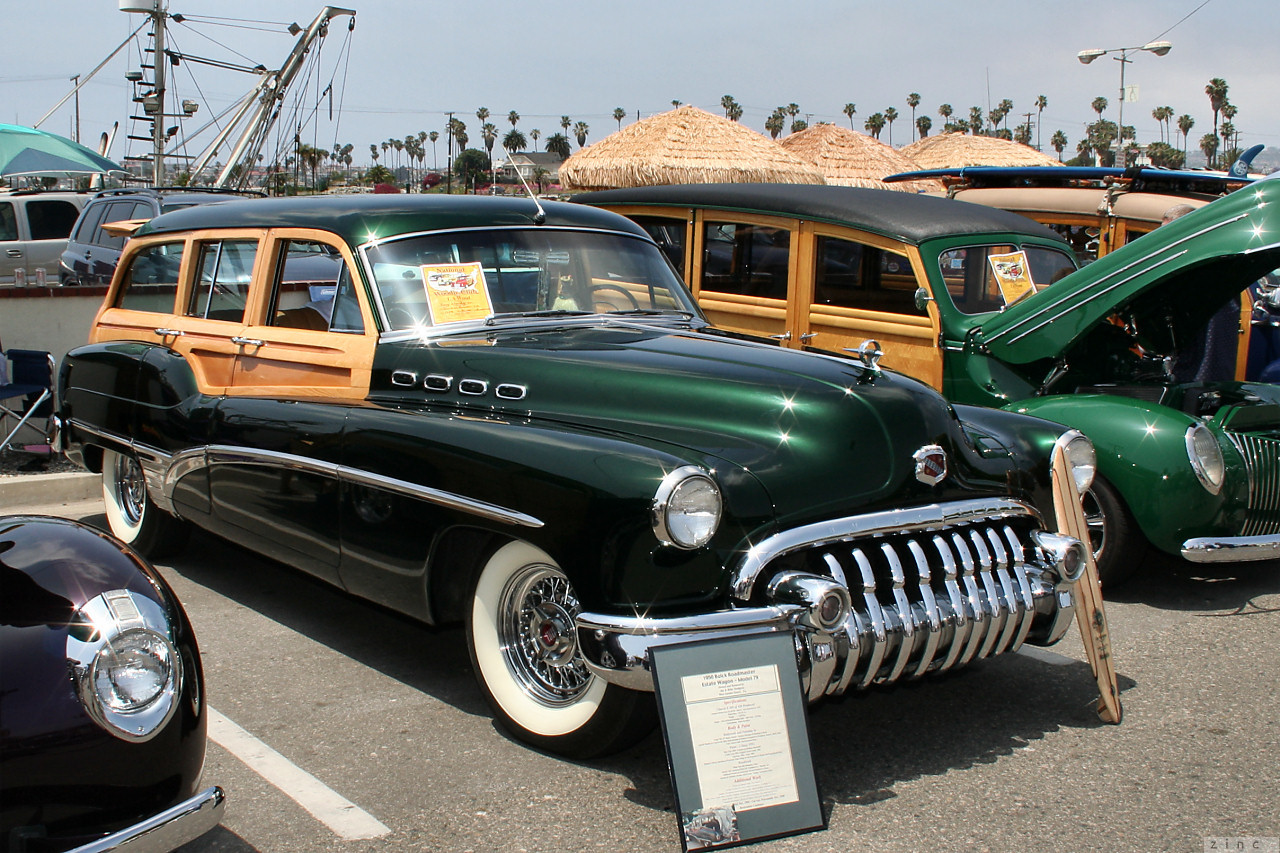 This is a picture of a vehicle (name of it is on the file name).